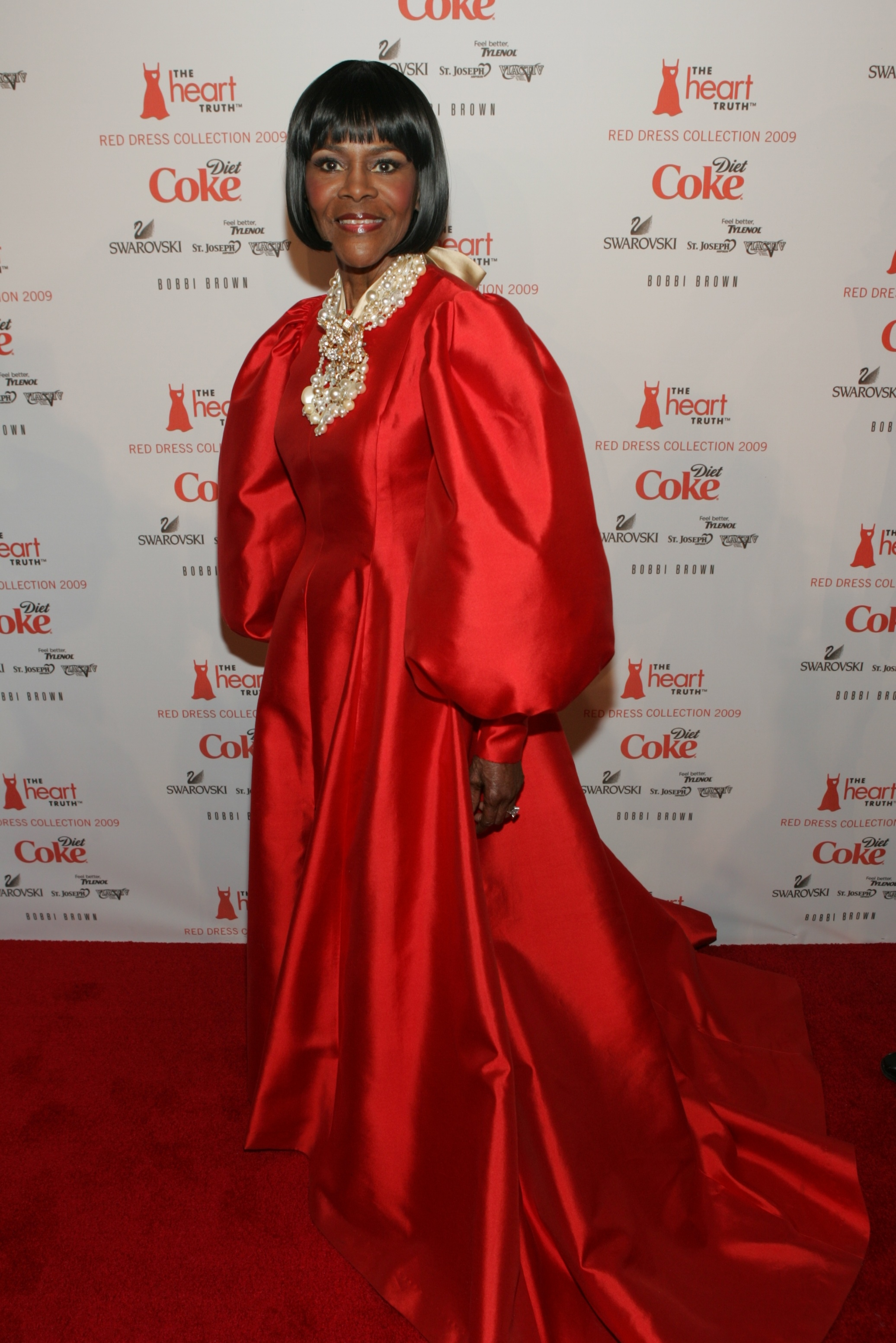 Cicely Tyson backstage at The Heart Truth's Red Dress Collection Fashion Show during New York Fashion Week. February 13, 2009 at Bryant Park.